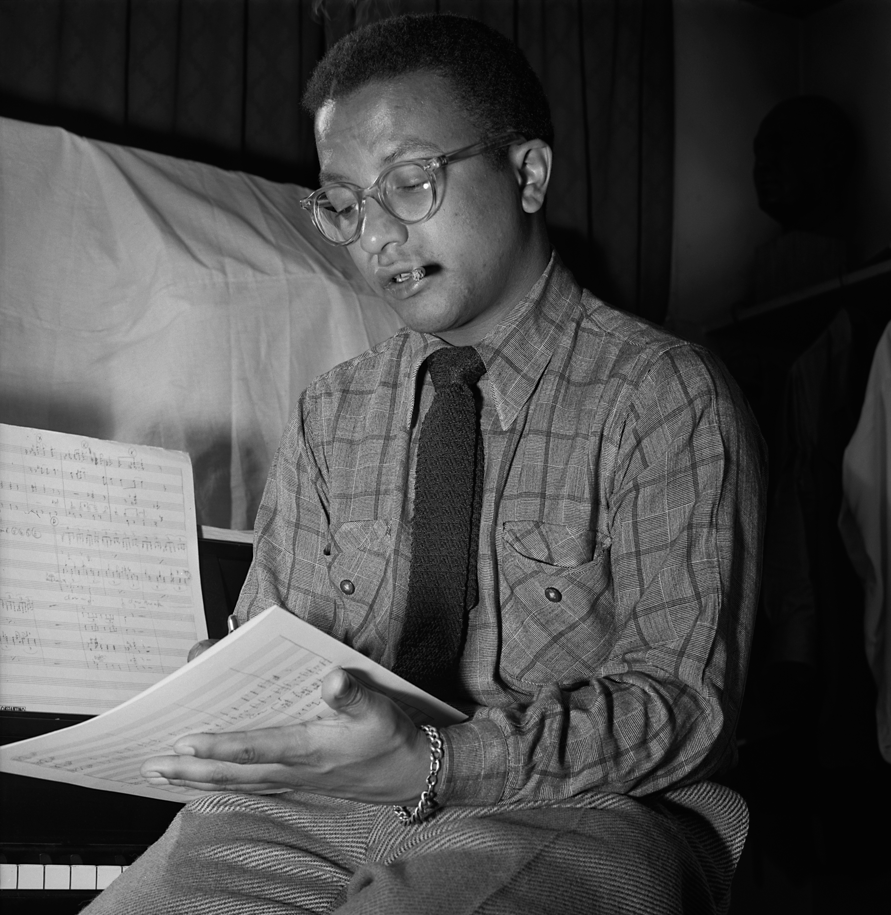 Billy Strayhorn, New York, N.Y., between 1946 and 1948. This image has been cropped and adjusted, roughly per the second of the Library of Congress' copies, as this improves the composition and presumably better reflects the correct skintone (it was common to slightly overexpose images of darker-skinned people to bring out more detail).